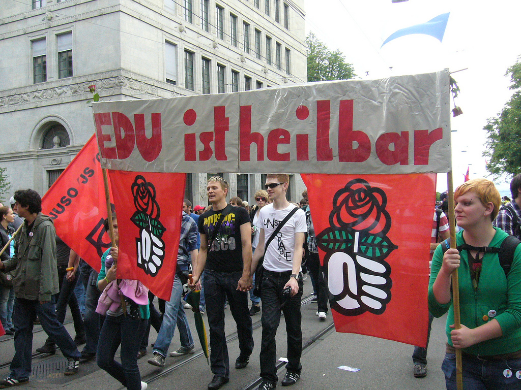 Europride 2009 in Zürich, Switzerland. Group of the Young Socialists Switzerland with a transparent: "EDU is curable". EDU is the bible-party Federal Democratic Union of Switzerland, which stated in protests against Europride, that many homosexuals have been cured with help of a christian organisation.